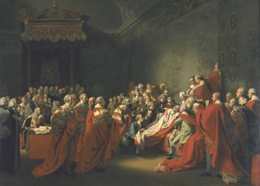 The Collapse of the Earl of Chatham in the House of Lords, 7 July 1778